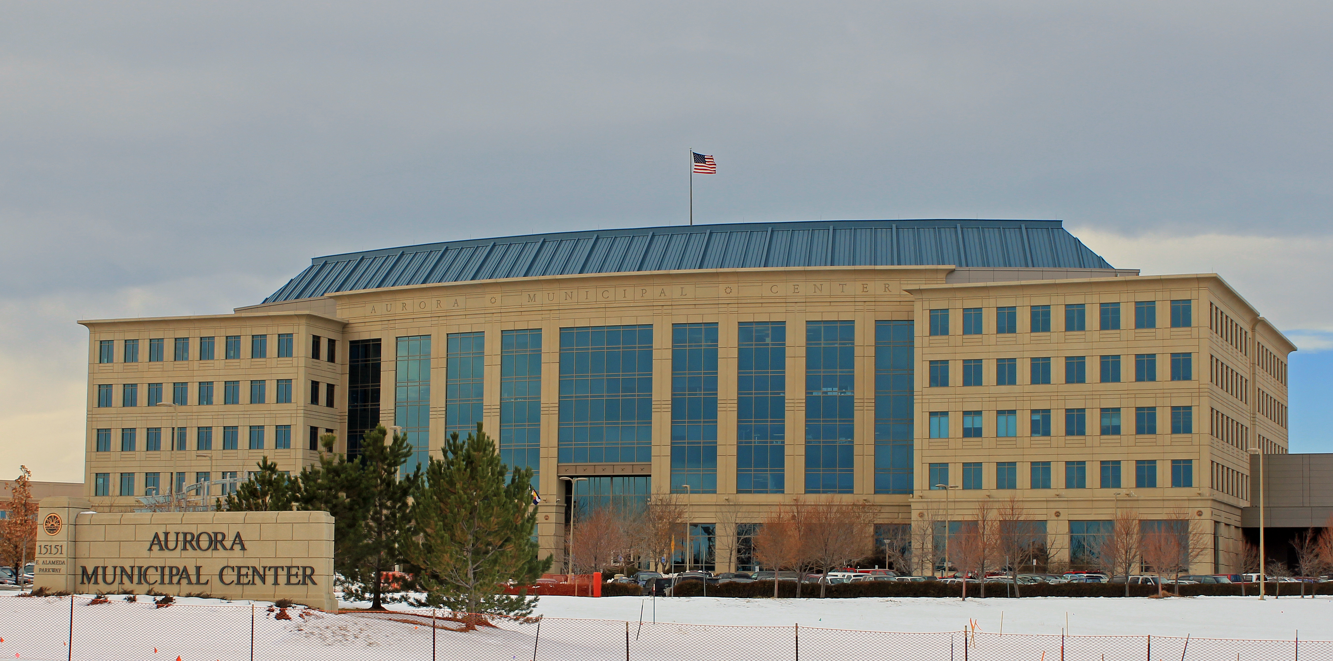 The Aurora Municipal Center (city hall), located at 15151 East Alameda Parkway in Aurora, Colorado.